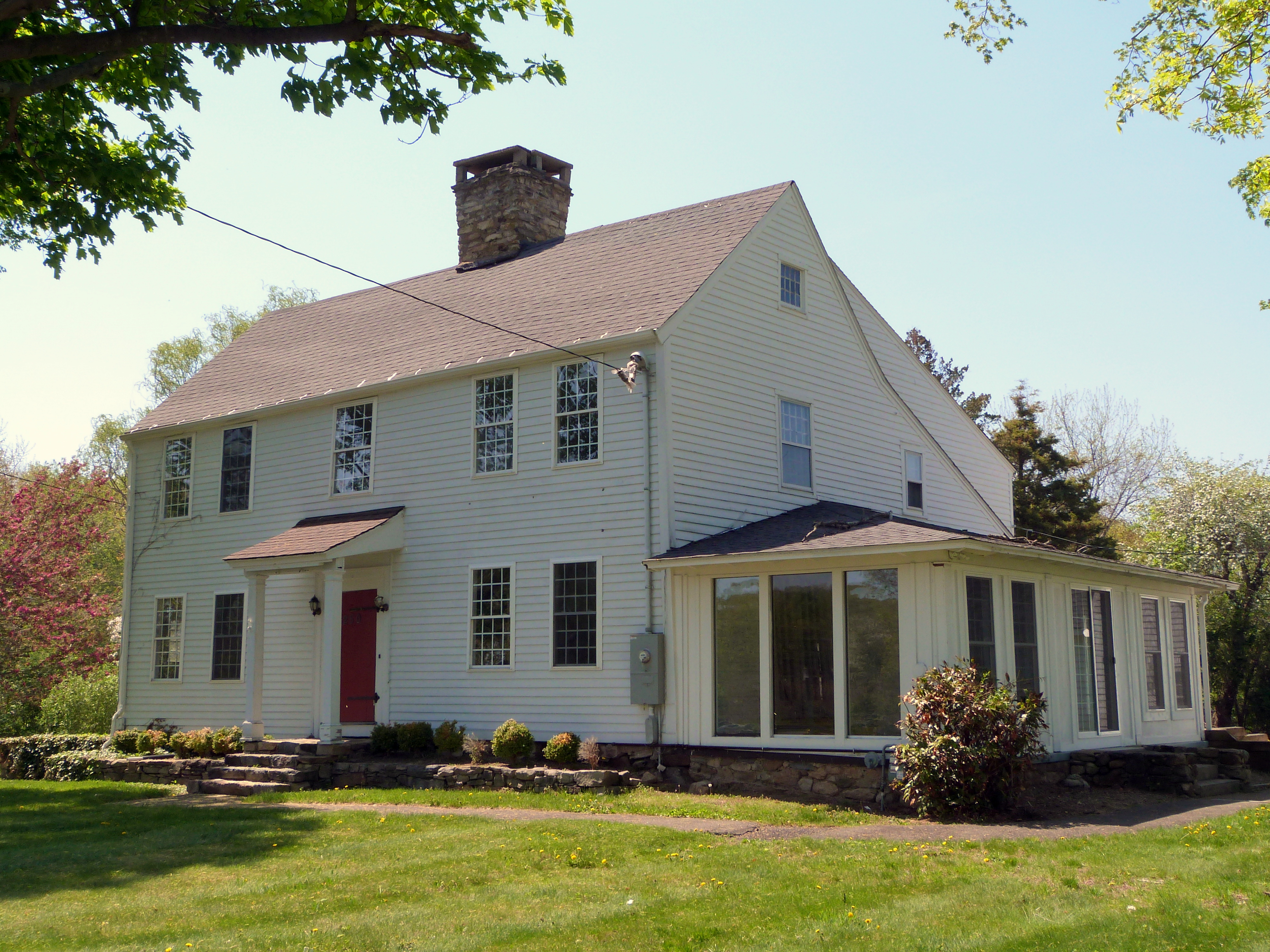 The historic John Tyler House (built ca. 1715), located at 242–250 East Main Street in Branford, Connecticut, United States, is listed on the US National Register of Historic Places.